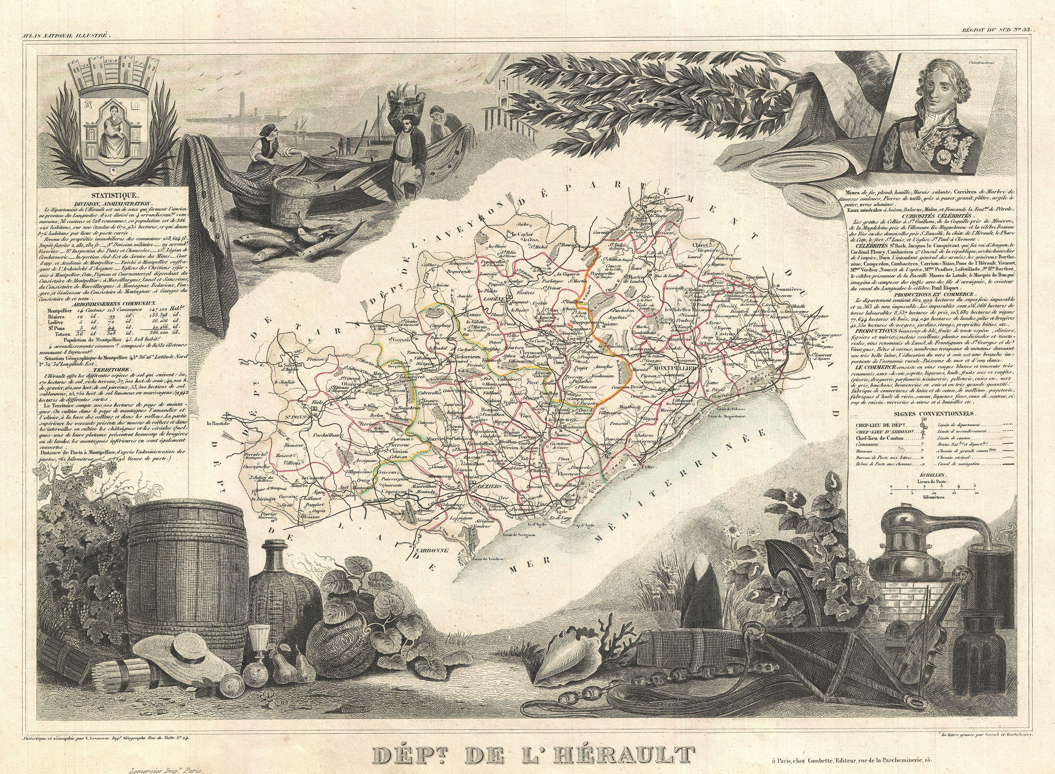 This is a fascinating 1852 map of the French department of Herault, France. This area is home to a wide variety of vineyards and is part of the larger Languedoc wine-growing region, the oldest in France. The red wines produced here are meaty, tannic wines with a deep red color. The area is also known for its production of Pélardon cheese, made from goat's milk, and Pérail, a ewe's milk cheese. The whole is surrounded by elaborate decorative engravings designed to illustrate both the natural beauty and trade richness of the land. There is a short textual history of the regions depicted on both the left and right sides of the map. Published by V. Levasseur in the 1852 edition of his Atlas National de la France Illustree.